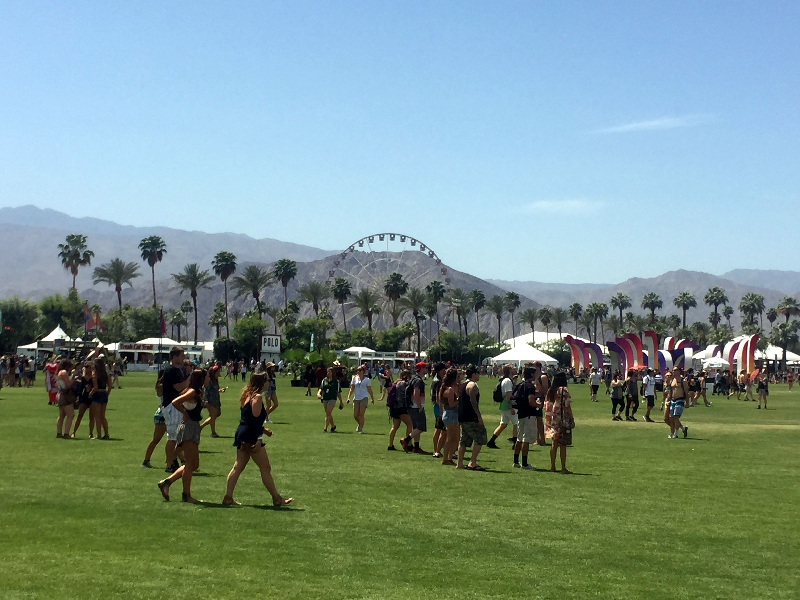 A view of the 2015 Coachella Valley Music and Arts Festival from the polo field, with the ferris wheel in the background